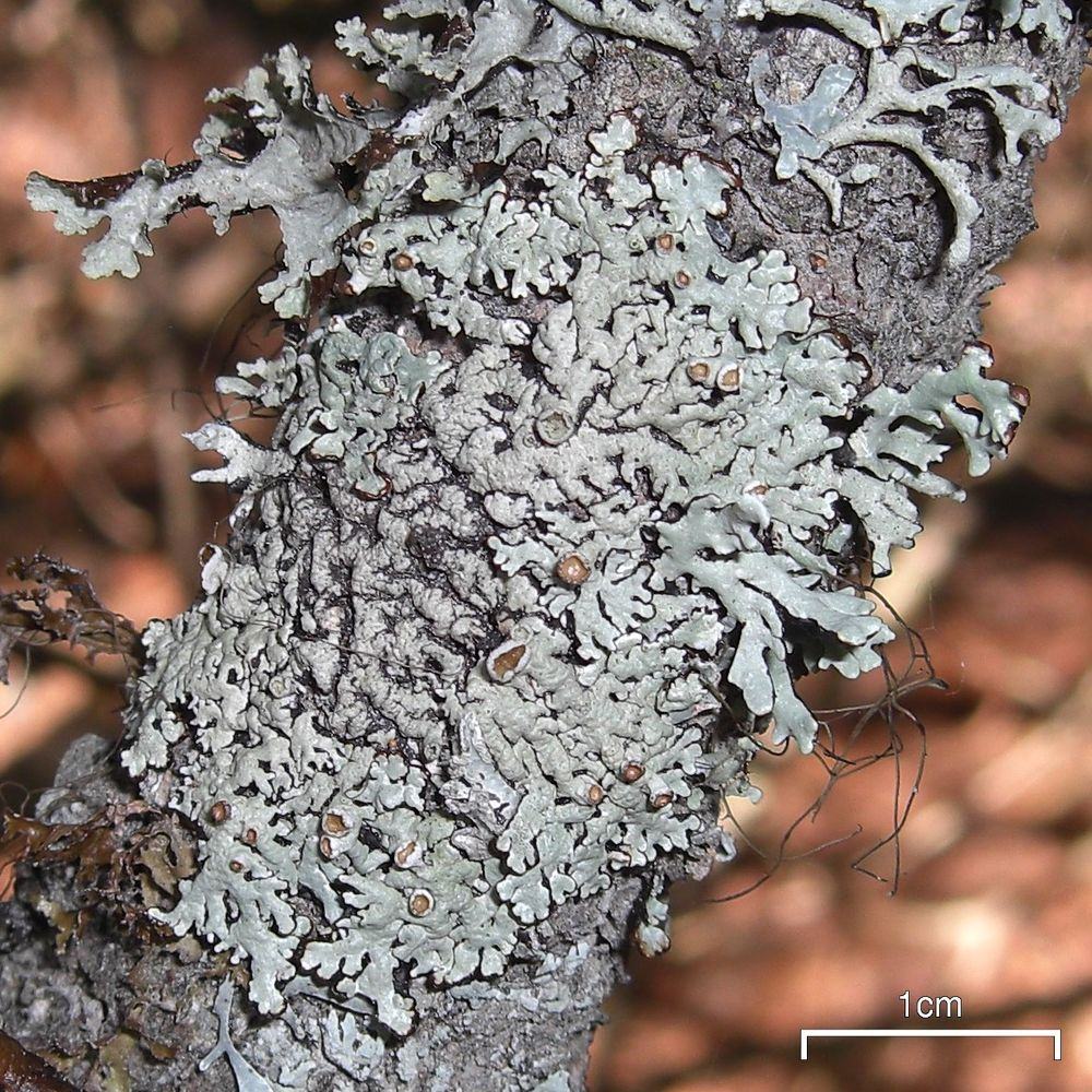 Hypogymnia metaphysodes group 20090729.4 Battle Mountain, Wells Gray Park, BC